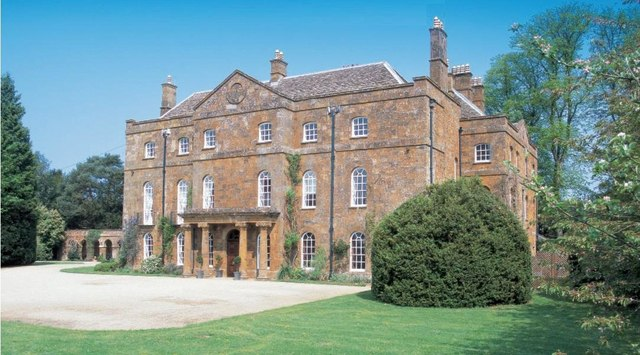 Adderbury Manor House 17th Century home of John Wilmot, 2nd Earl of Rochester. Near the 'Lakes Walk' in Adderbury.